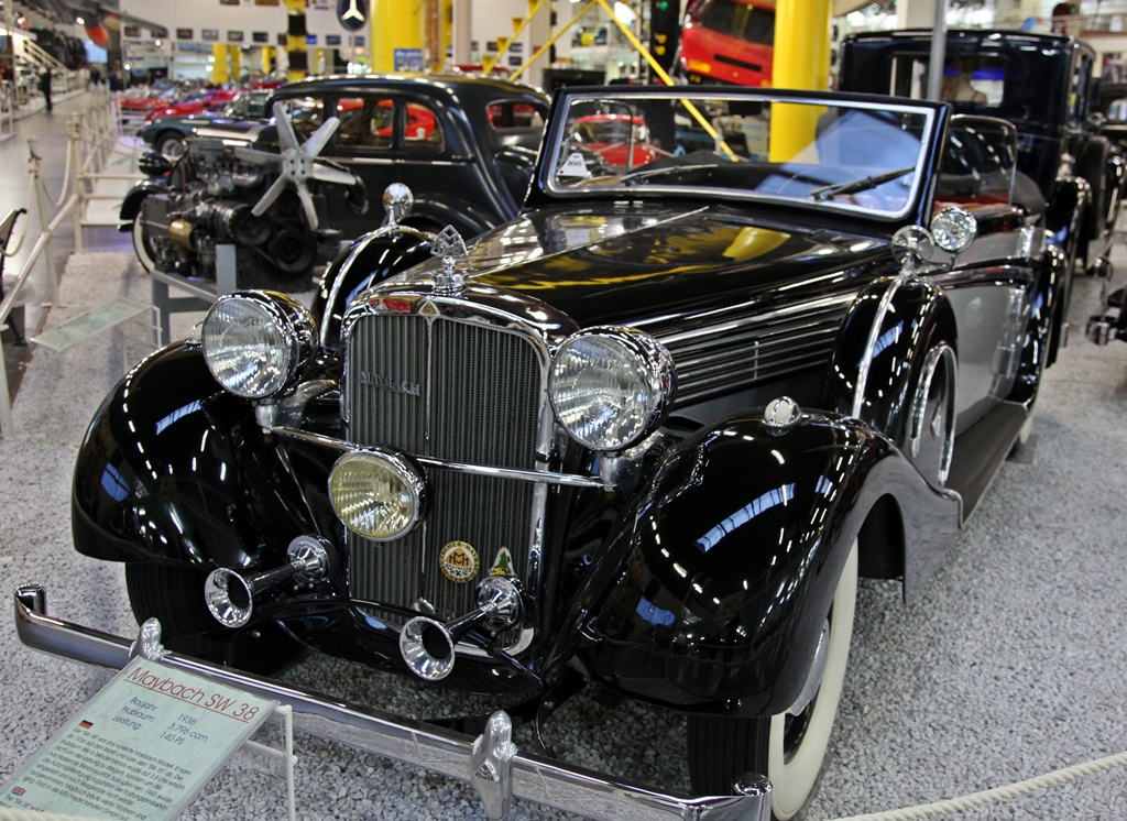 1938 Maybach SW 38, 3,8l 6cyl. 140 PS engine